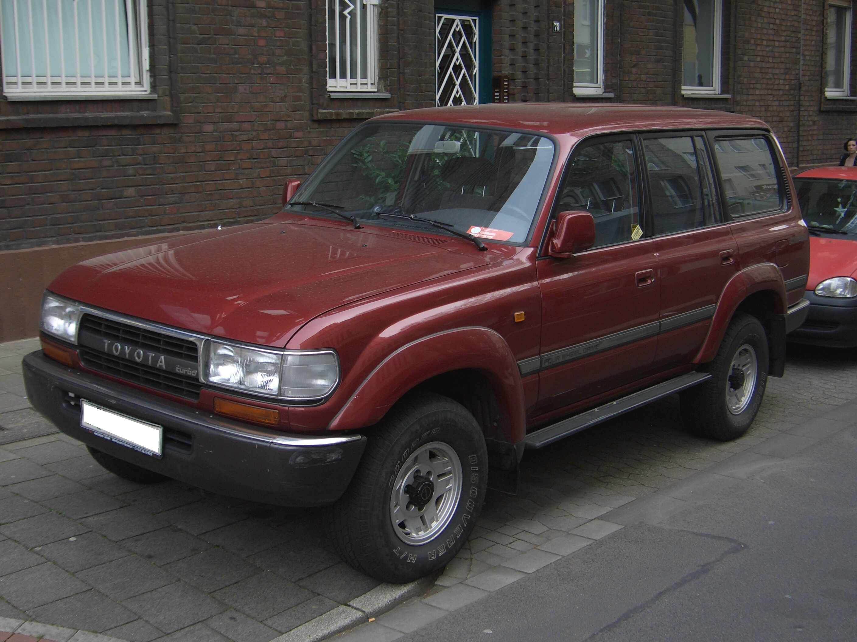 Toyota Land Cruiser VX, 80 series (1990-1997), seen in Duesseldorf, Germany